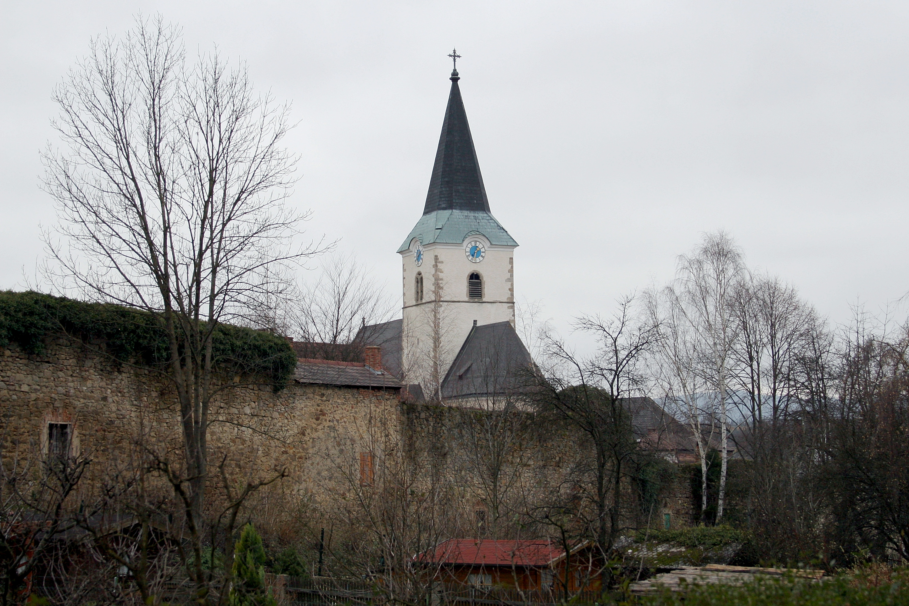 City walls of Weitra.